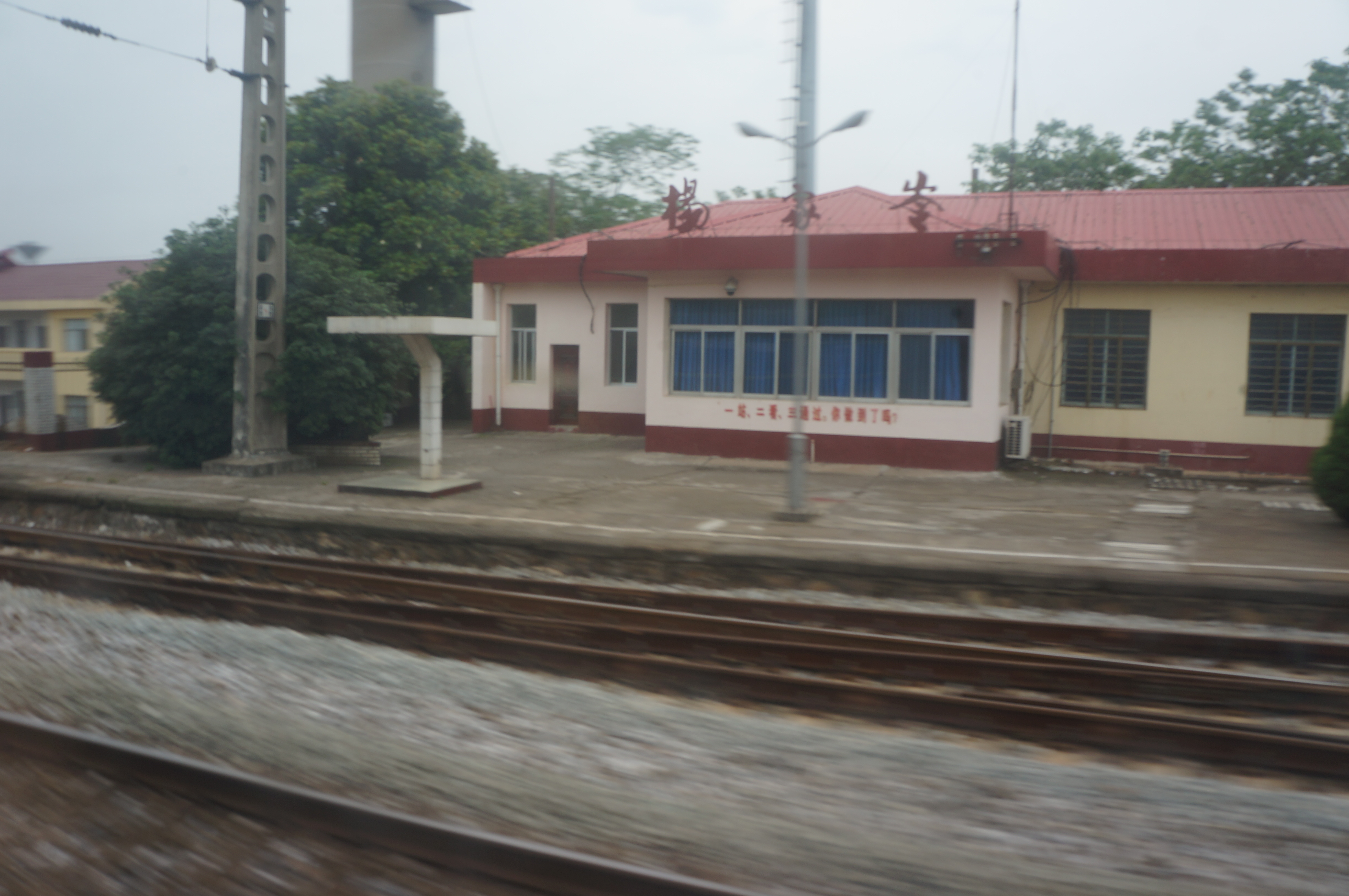 Next Station, Yongxiu